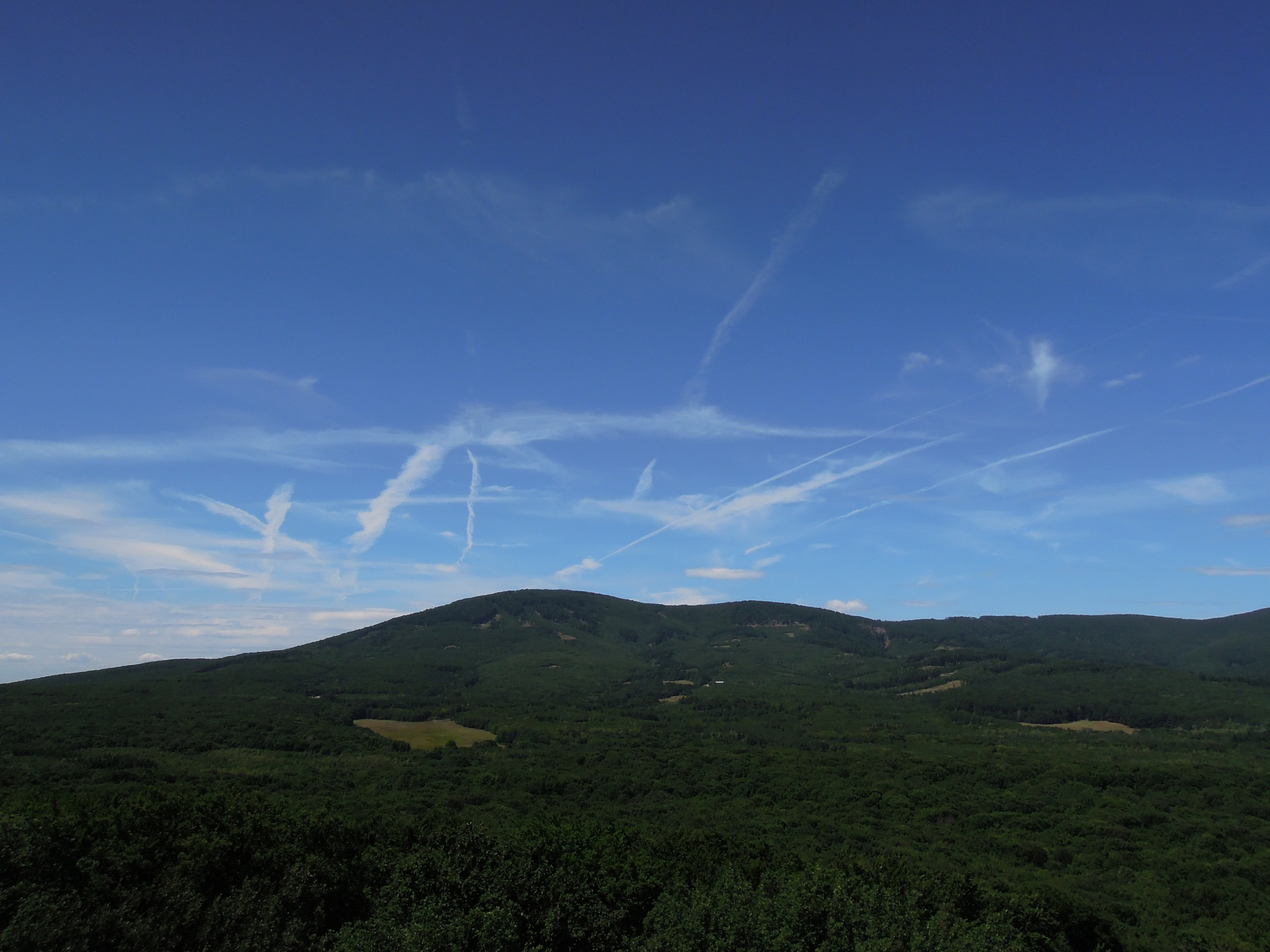 View of the Veľký Tribeč (829 m) from the hill Svinec (view from the southeast).